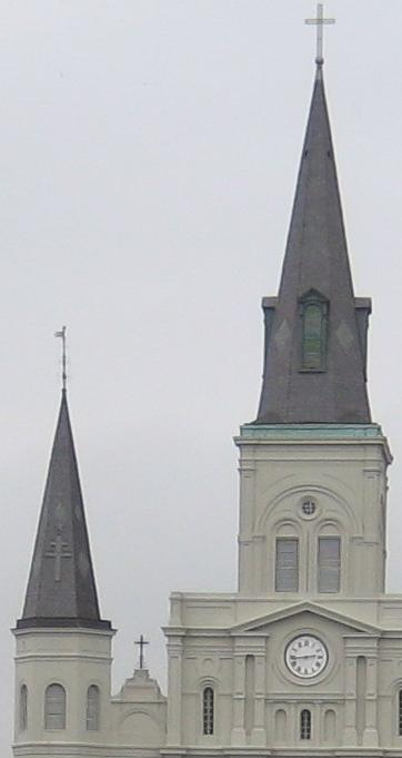 The St Louis Cathedral in the French Quarter, New Orleans, Louisiana: View of the Cathedral across Jackson Square from Decatur Street along the Mississippi River.